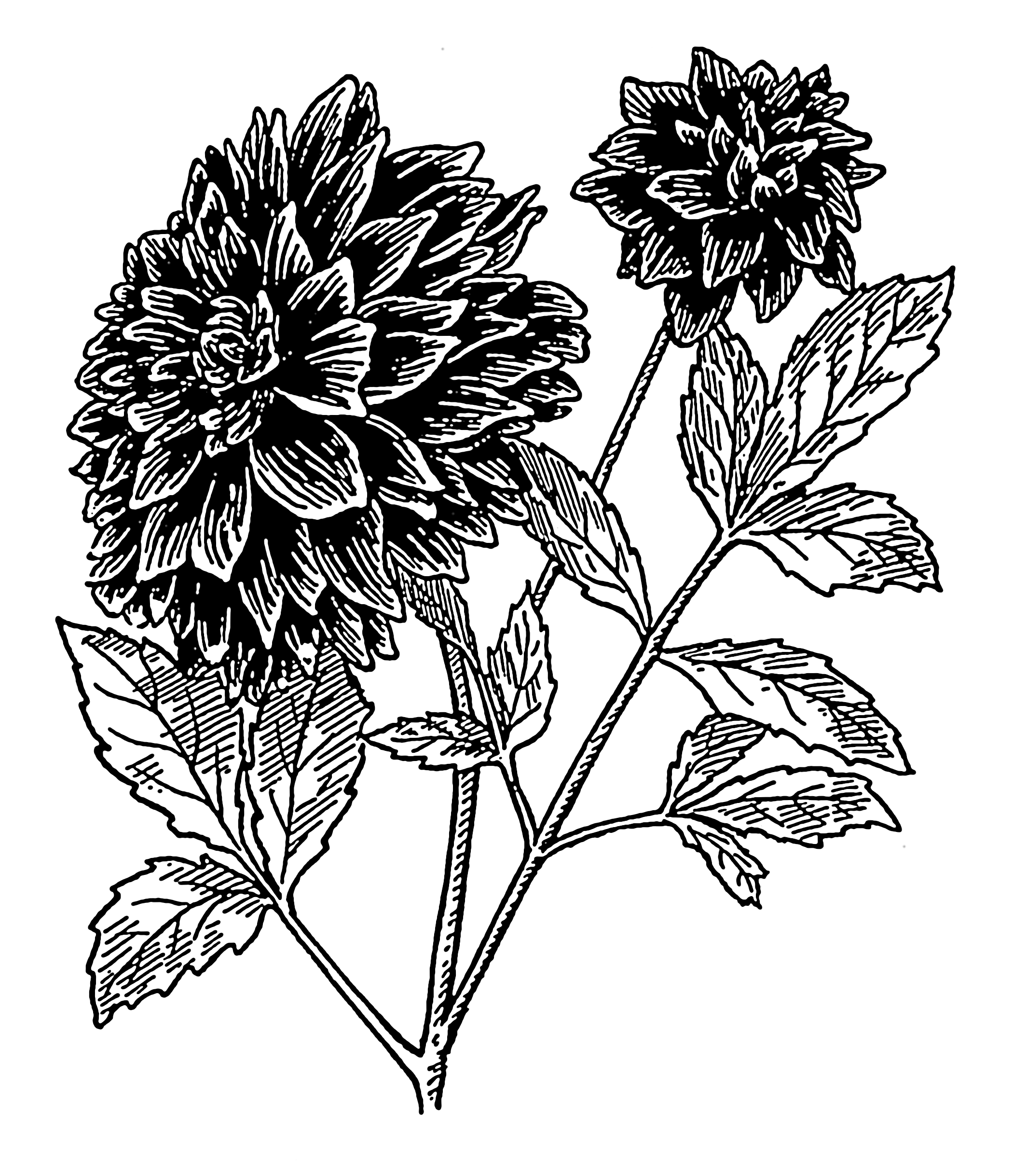 Line art drawing of a dahlia.